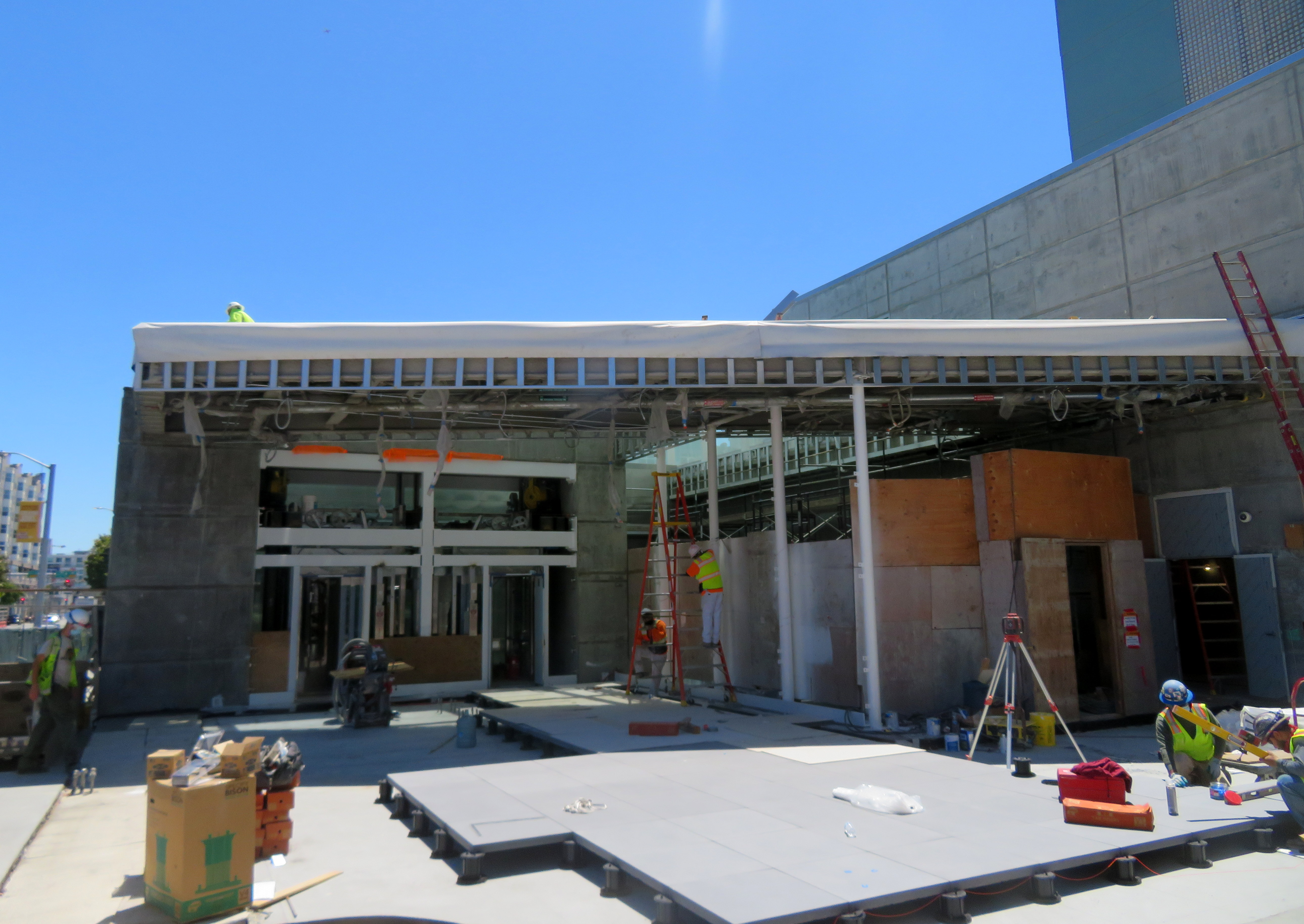 Construction of the headhouse of Yerba Buena/Moscone station in July 2020